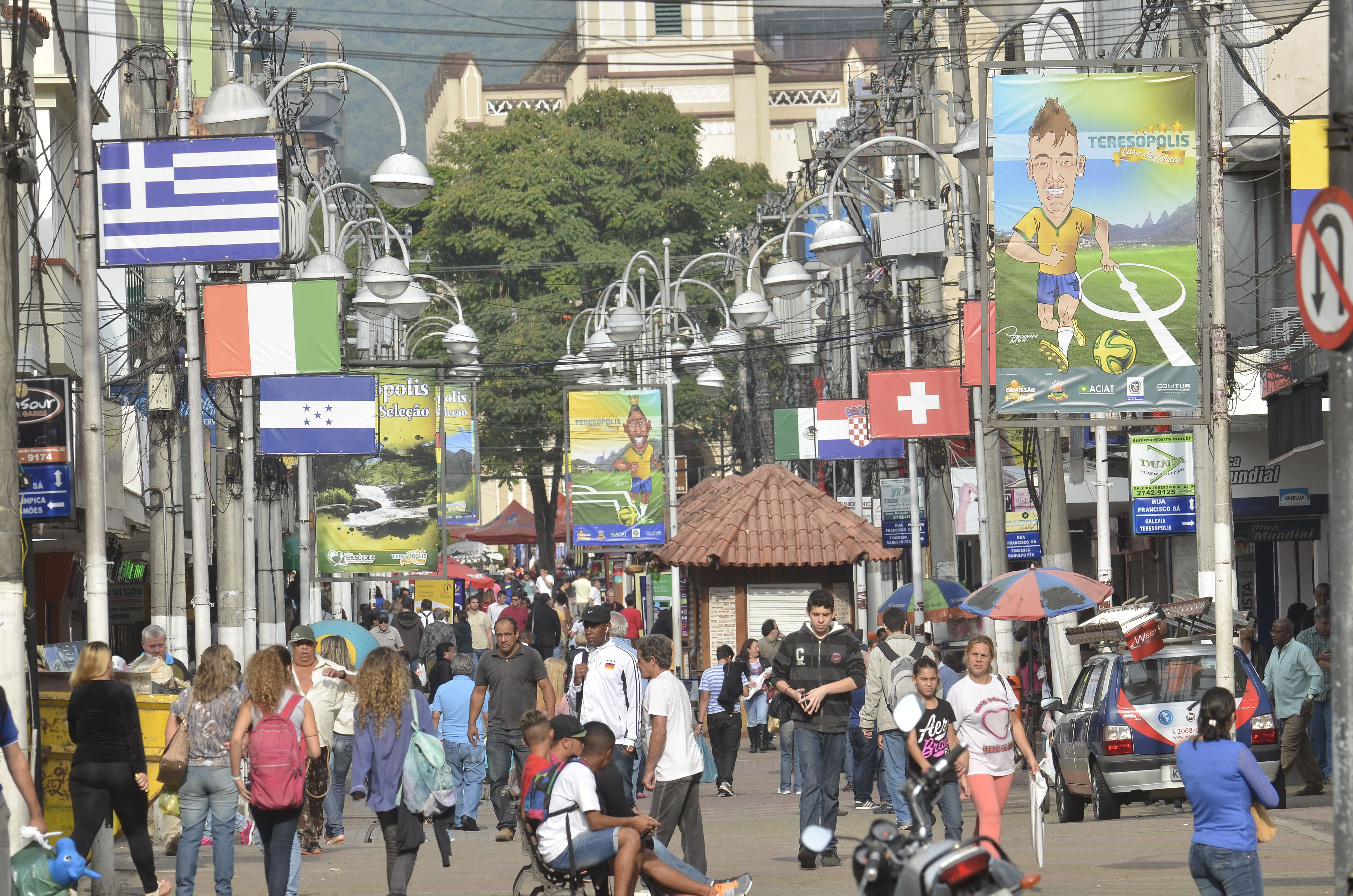 The inflow of visitors colors the streets all yellow and green.